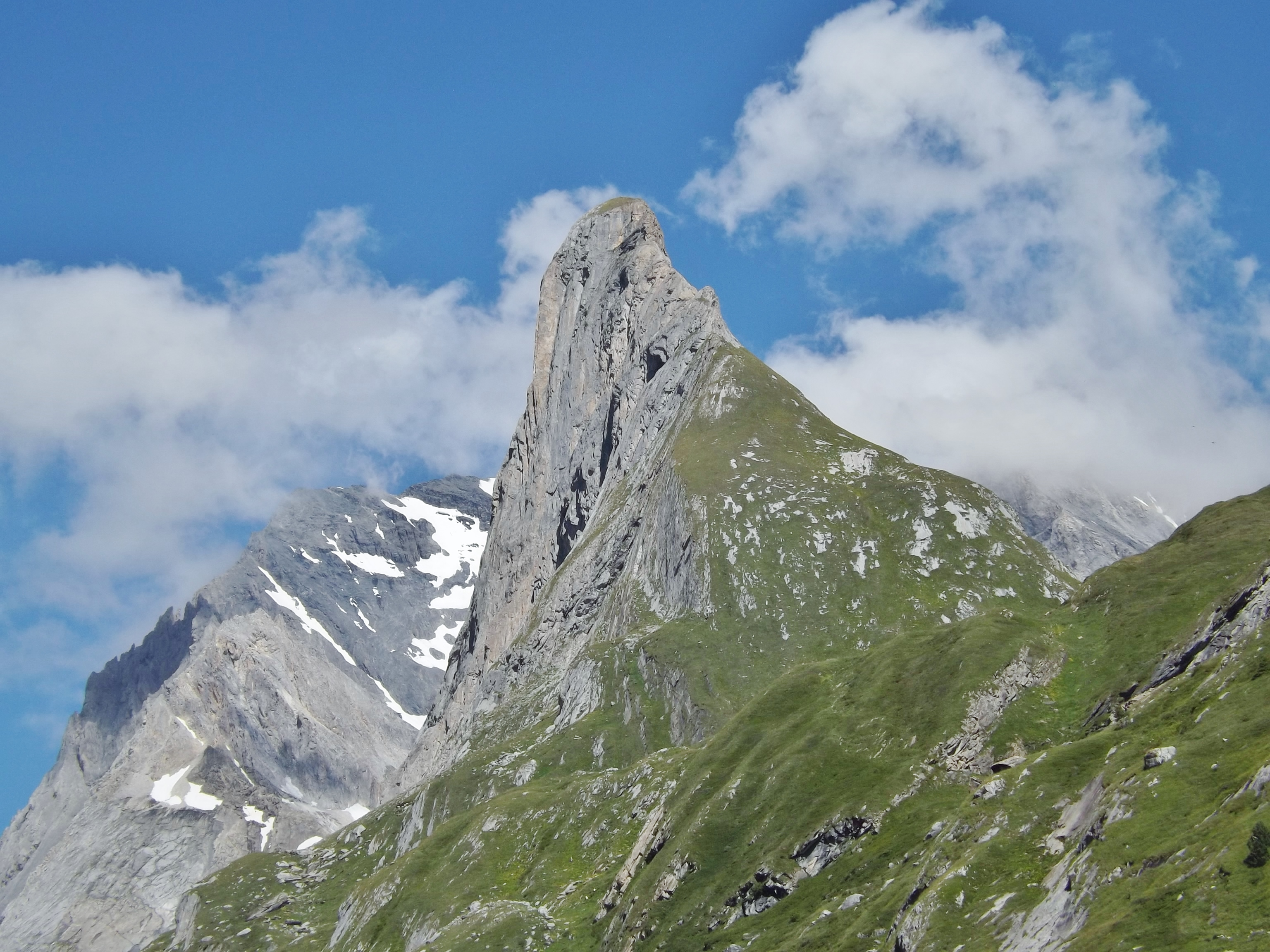 Sight of the Aiguille de la Vanoise peak, at 2,796 meters high, in Savoie, France.